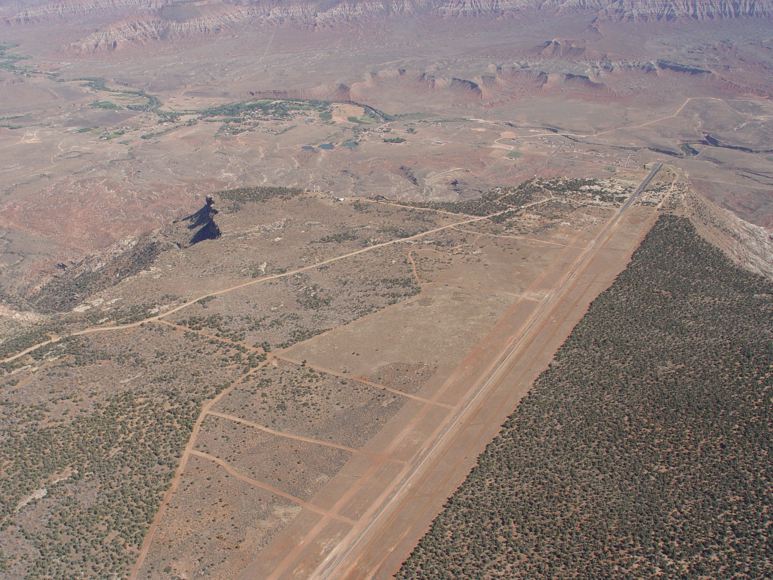 Aerial photo of part of Hurricane Mesa supersonic test track taken from helicopter 2012-06-09